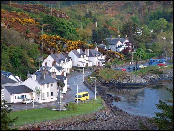 Lochinver, West Coast of the Scottish Highlands.